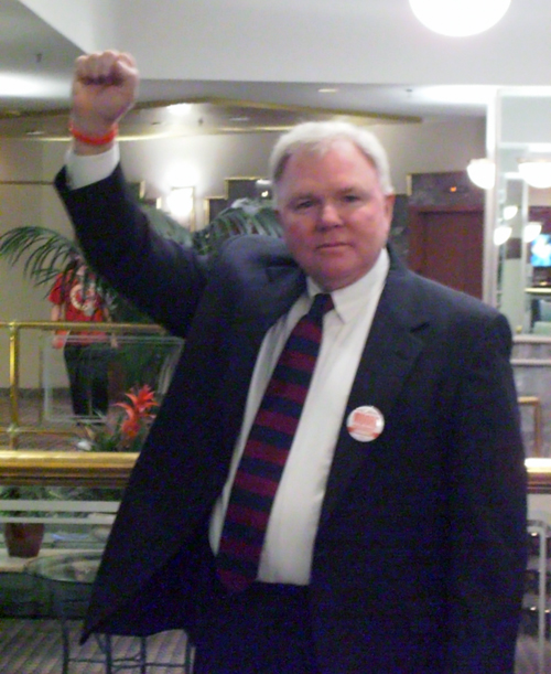 Brian Moore, presidential nominee of the Socialist Party USA